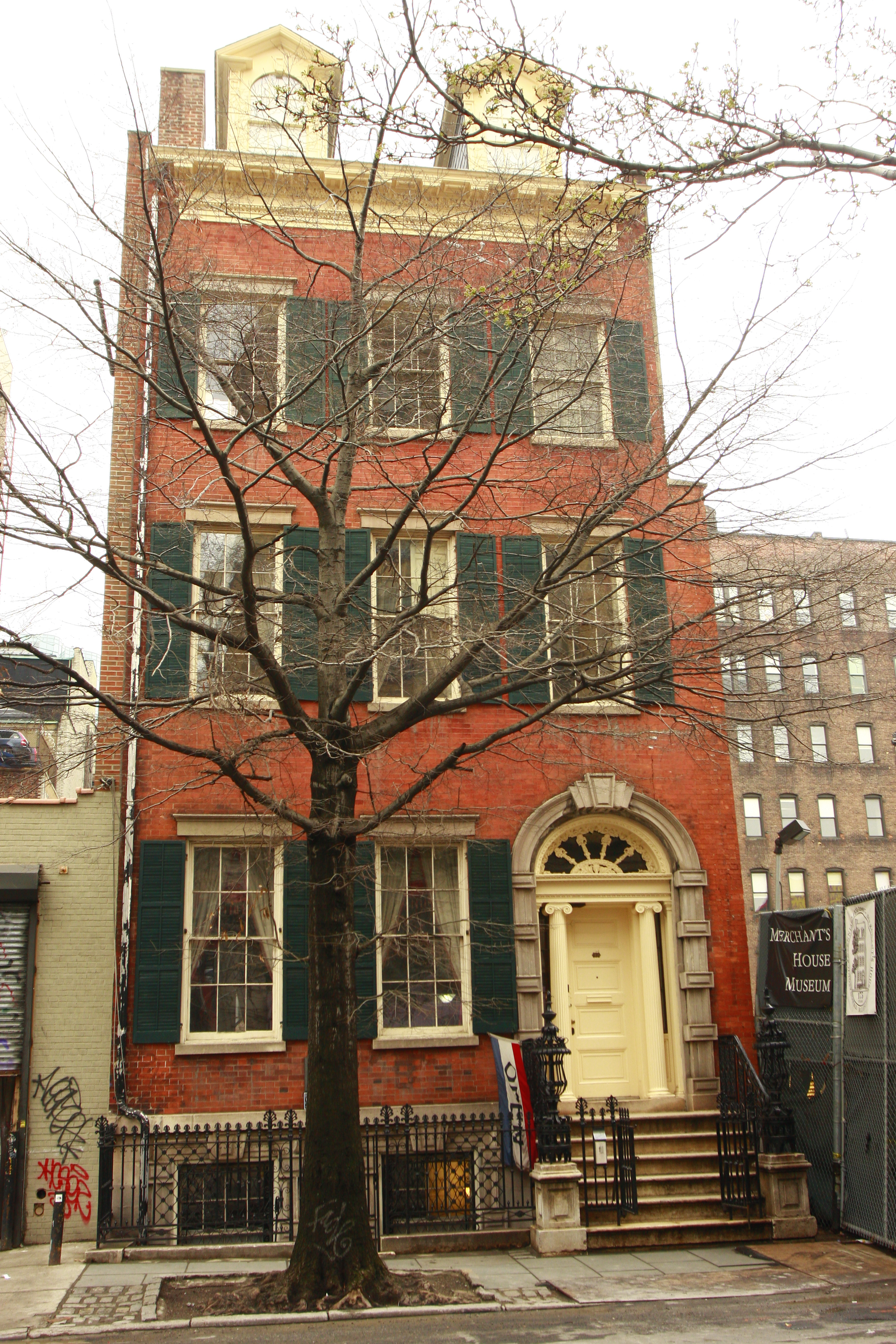 This photo is of Wikipedia Takes Manhattan location code 148, Merchant's House Museum.